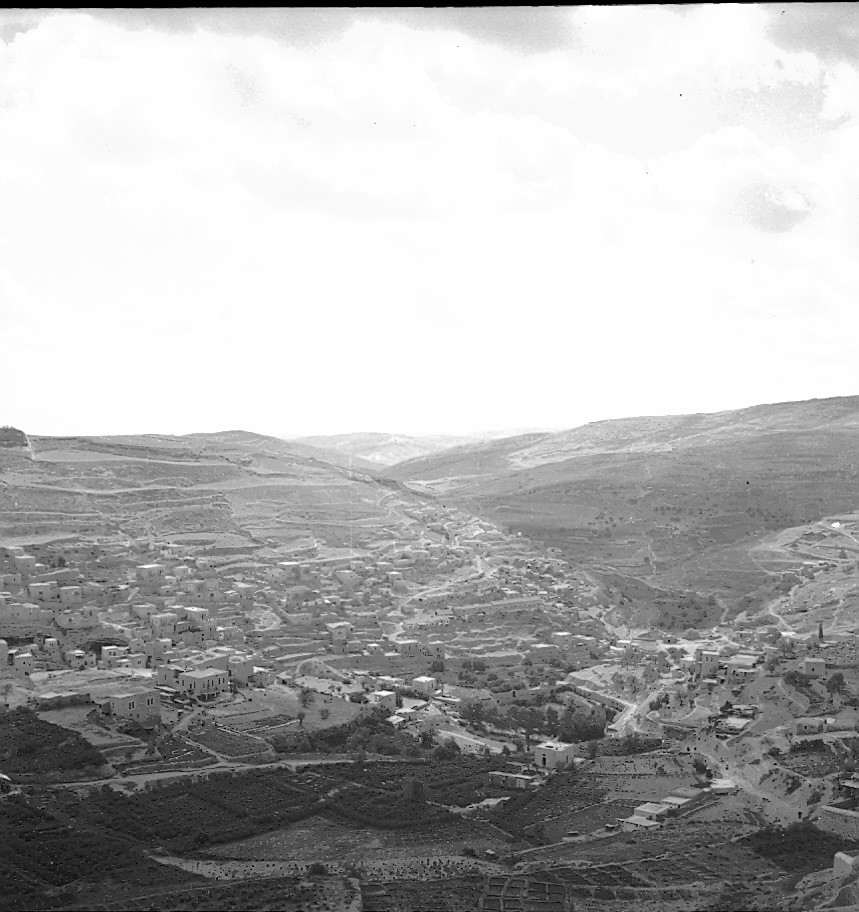 Silwan from The Old City walls